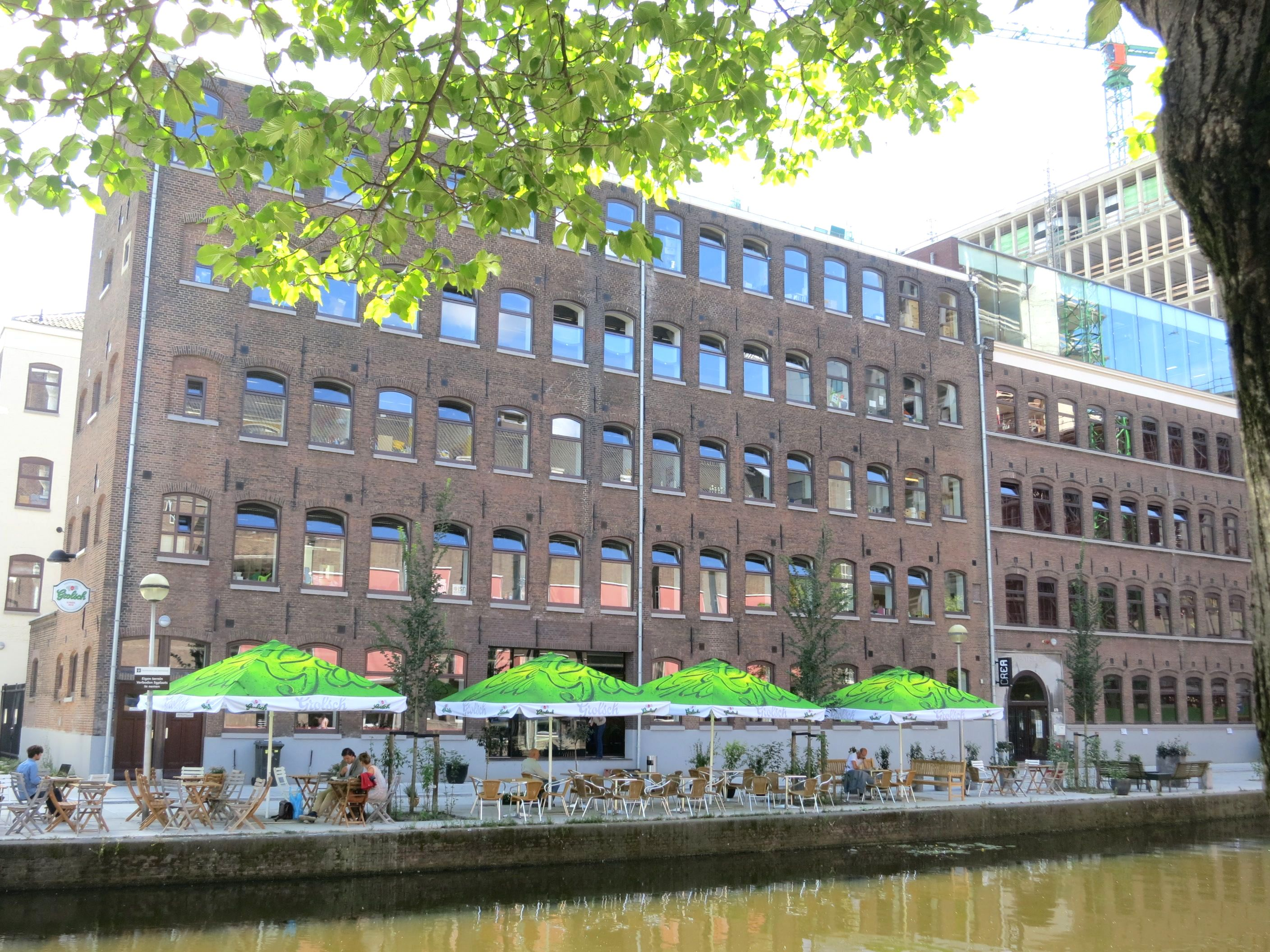 Headbuilding CREA since January 2012.